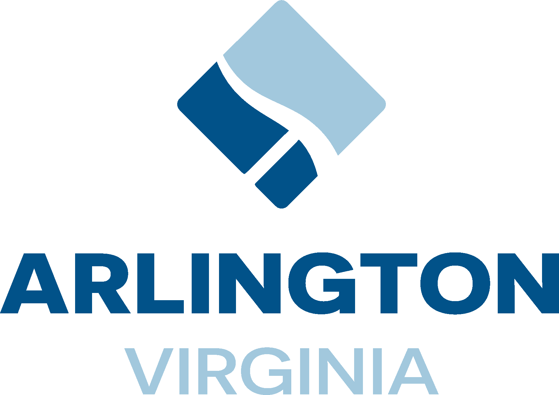 Logo of Arlington County, Virginia, used for promotional purposes by the Arlington County government.